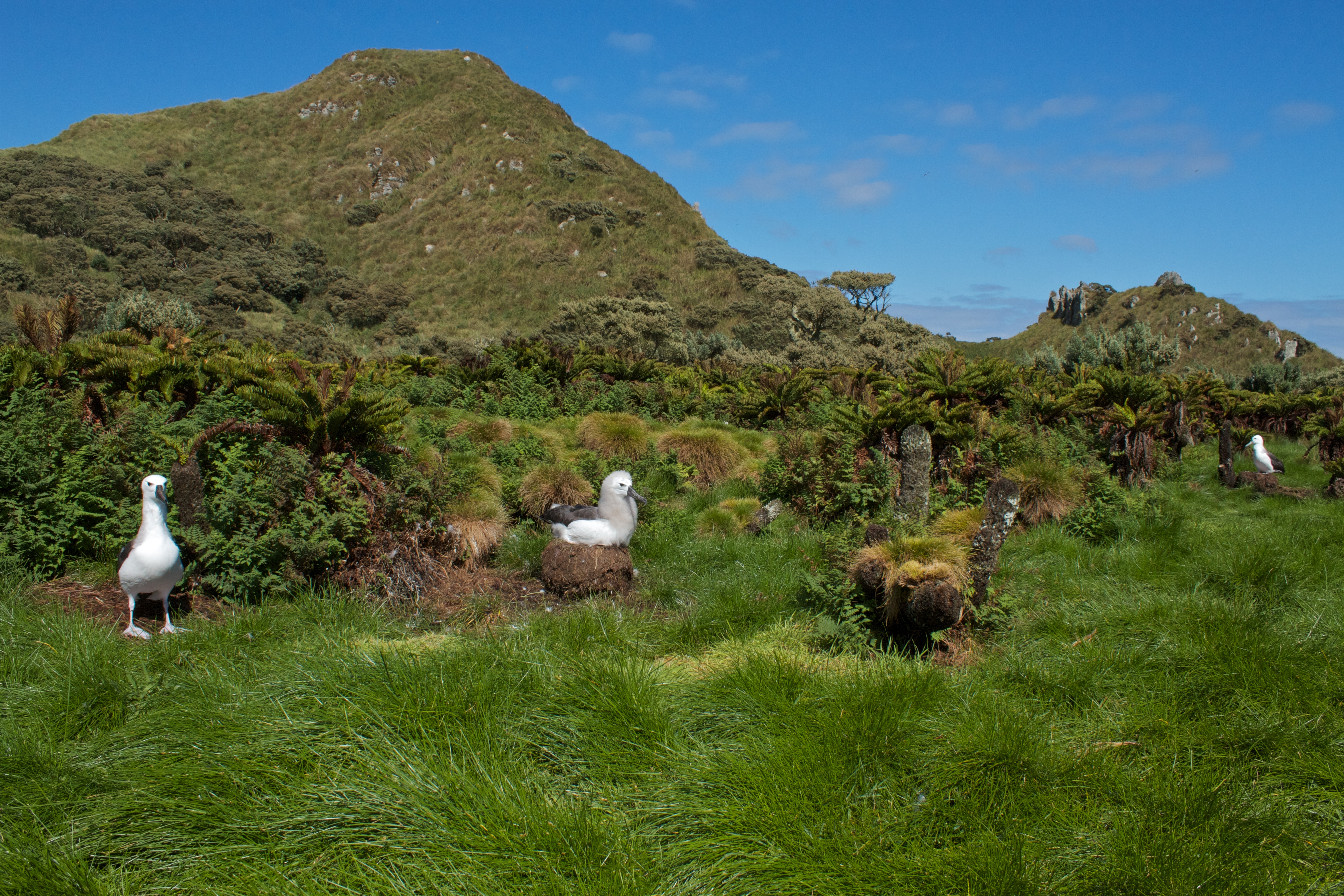 Albatrosses nesting in Fernbush plant communities dominated by the endemic tree-fern Blechnum palmiforme